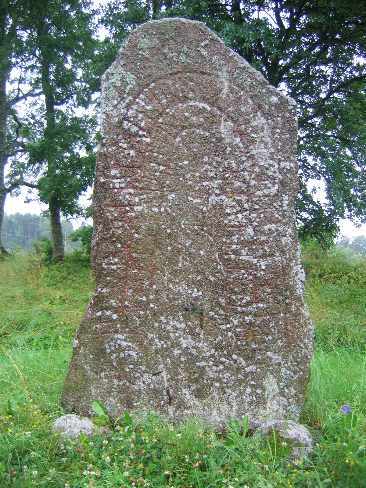 Runestone Ög 94 at the no longer used cemetery of the former church Harstad in Östergötland, Sweden.